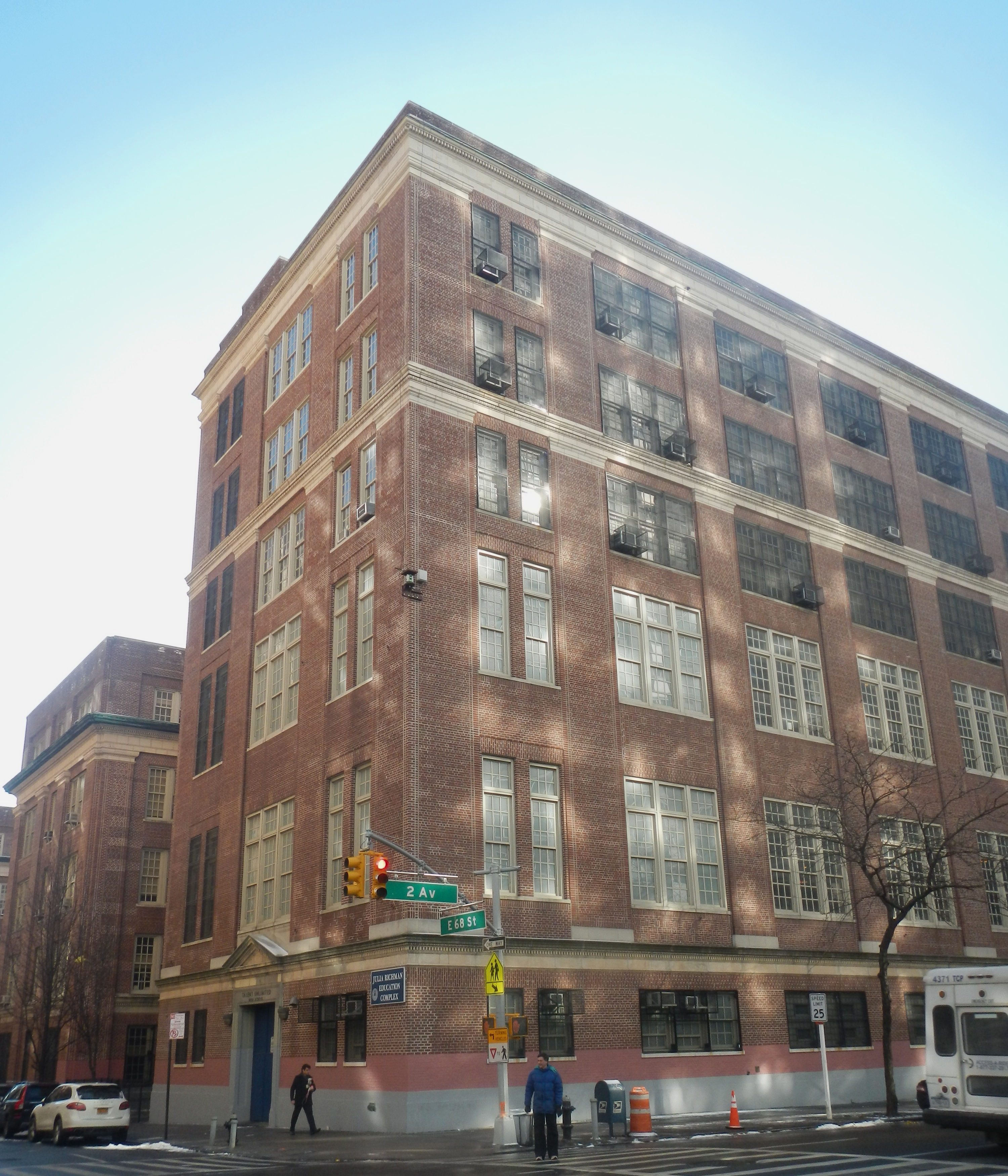 Looking southeast at high school on a cold sunny morning.